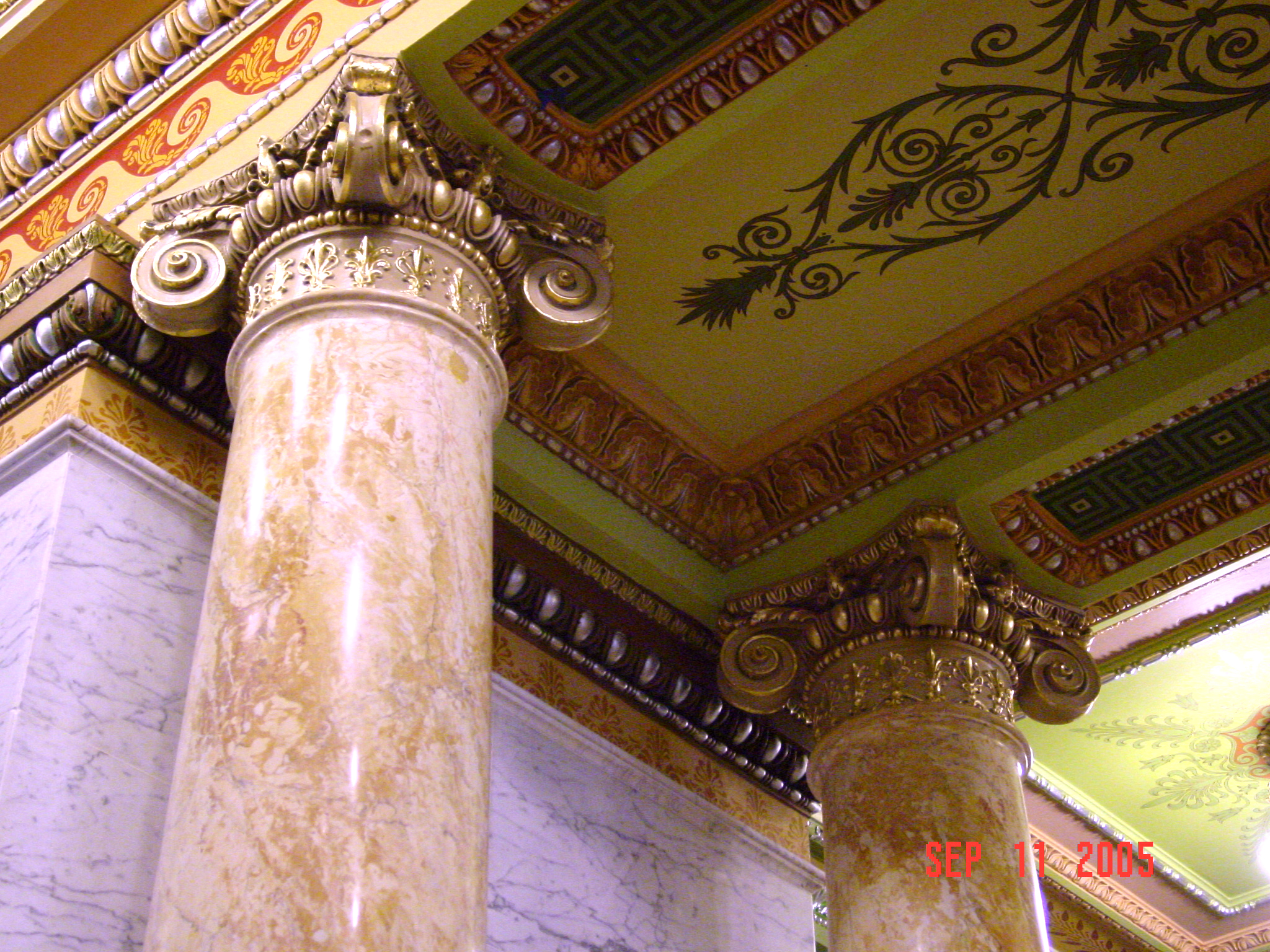 Interior of the restored Allen County Courthouse in Fort Wayne, Indiana USA